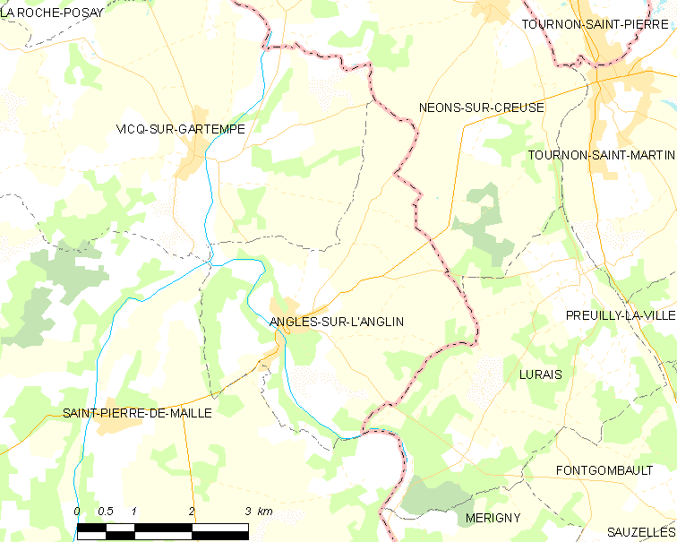 Map of French municipality Angles-sur-l'Anglin